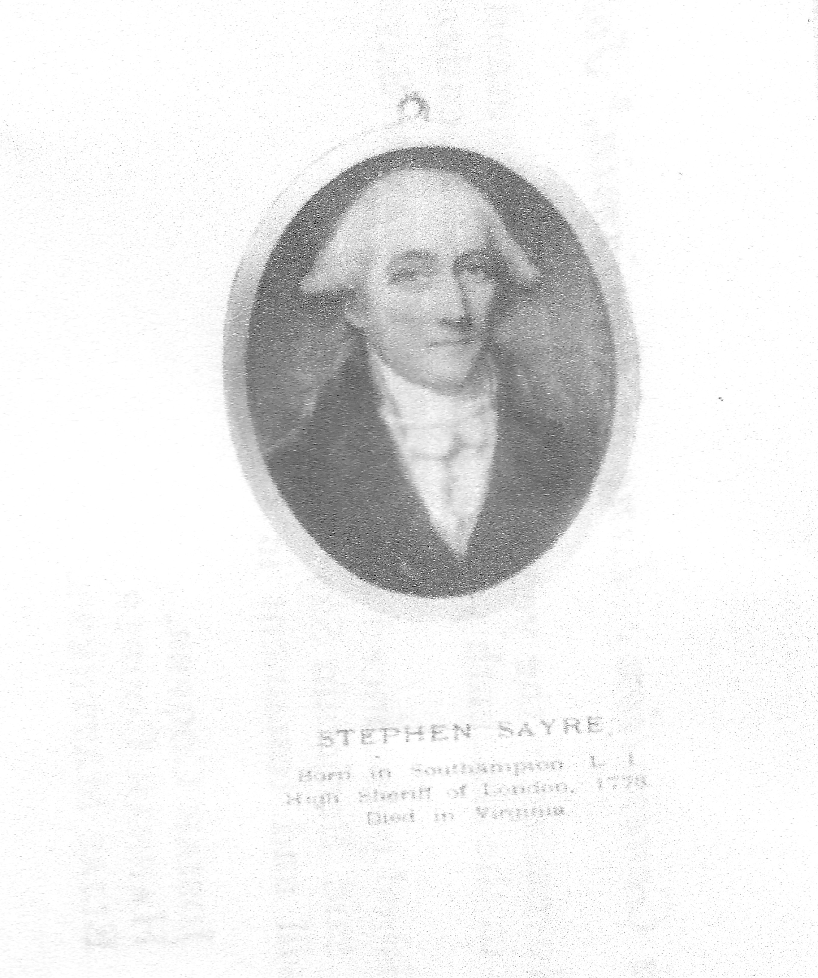 Stephen Sayre, sheriff of London England